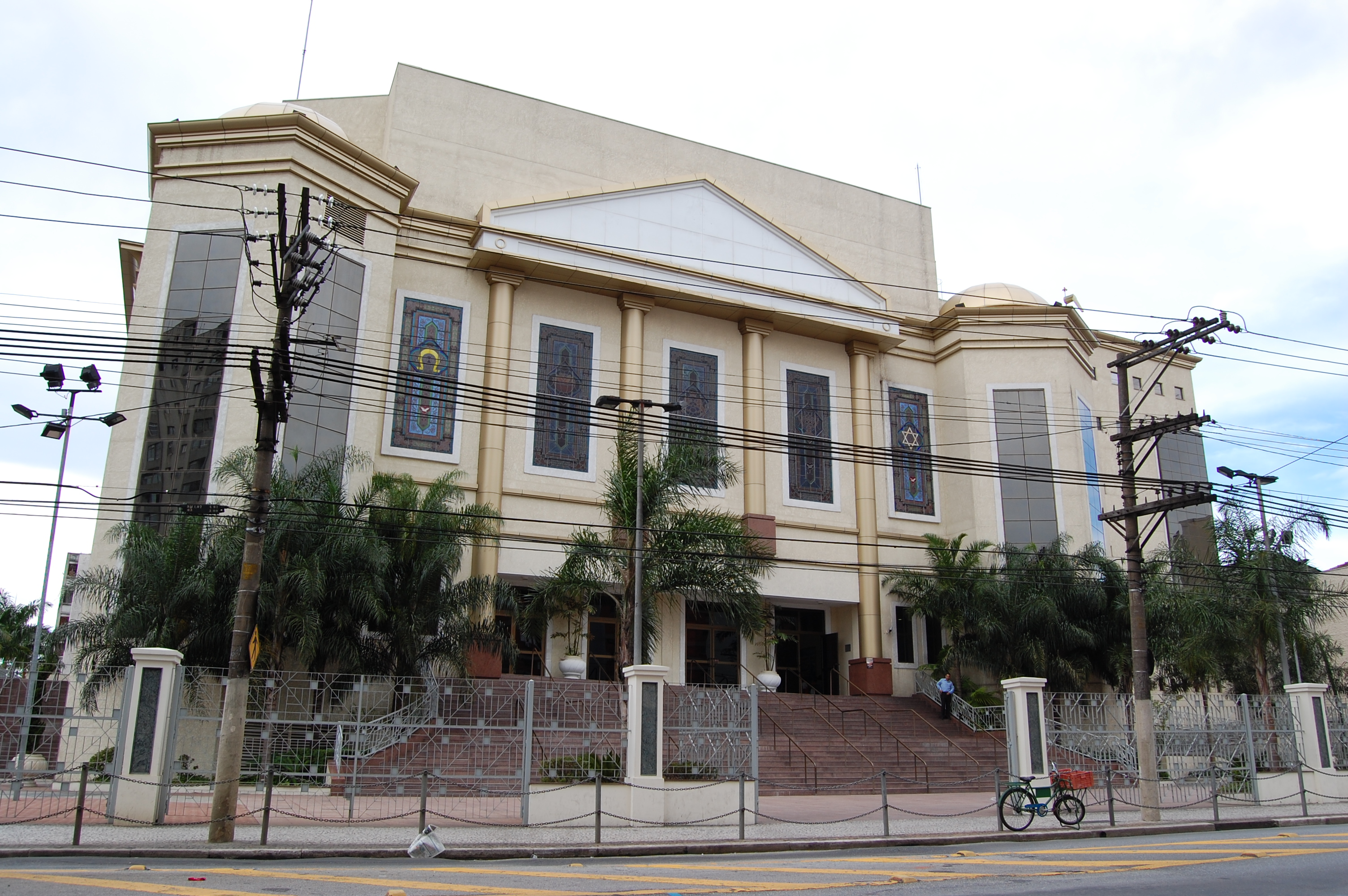 Cathedral of the Universal Church of the Kingdom of God in São Paulo. It was replaced by the Temple of Solomon, next door to the building, in 2014.